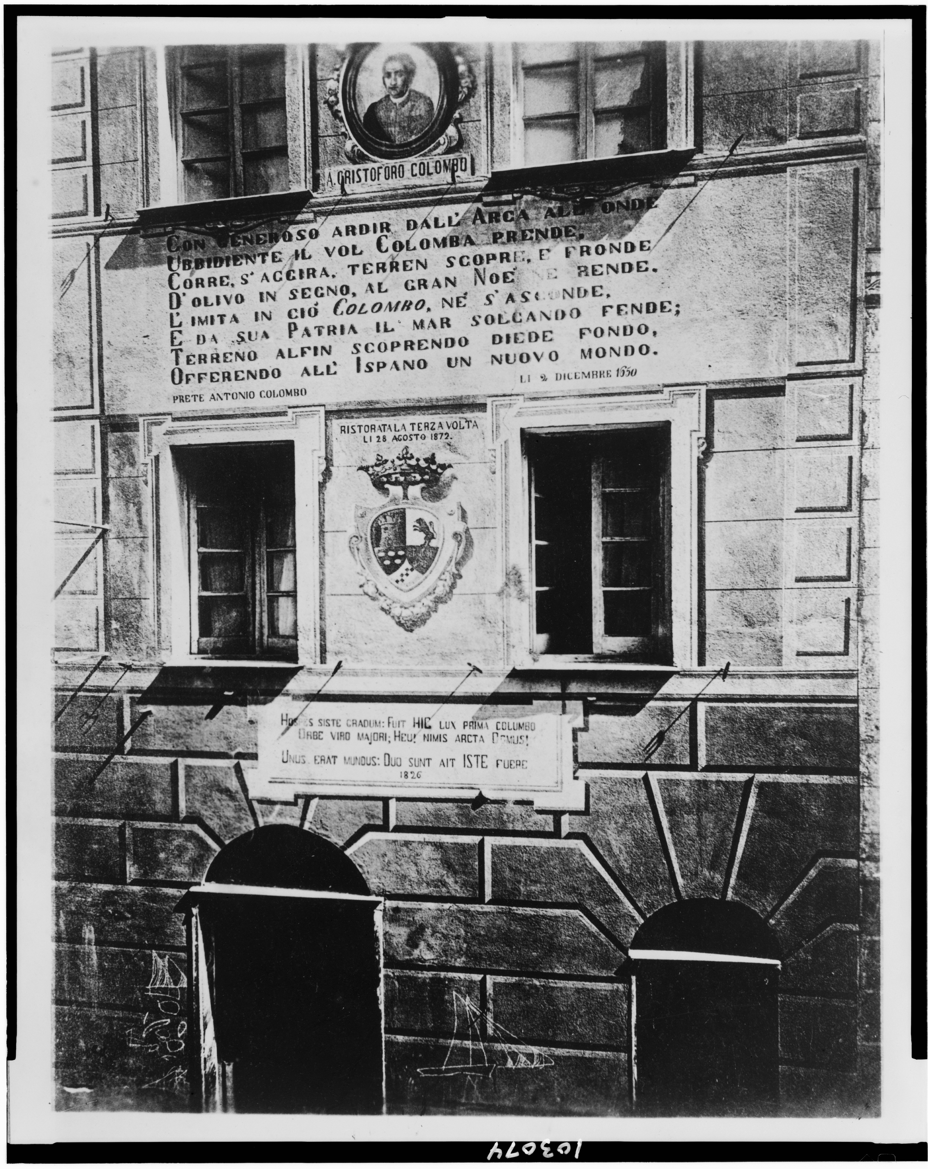 Inscription on the house in which Columbus is believed to have been born in Genoa. The original one was destroided during Genoa-France war 1684.